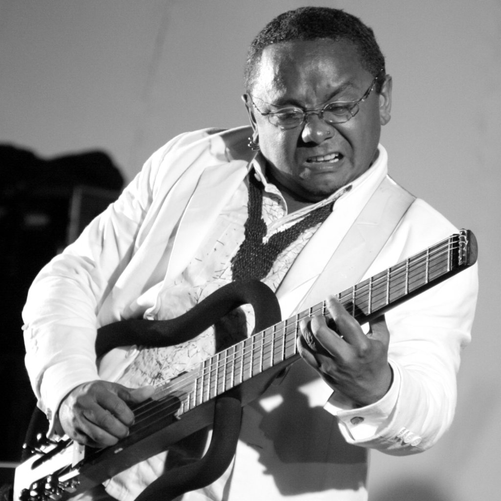 Brazilian musician Chico César plays the guitar in a show in Natal/RN, Brasil.